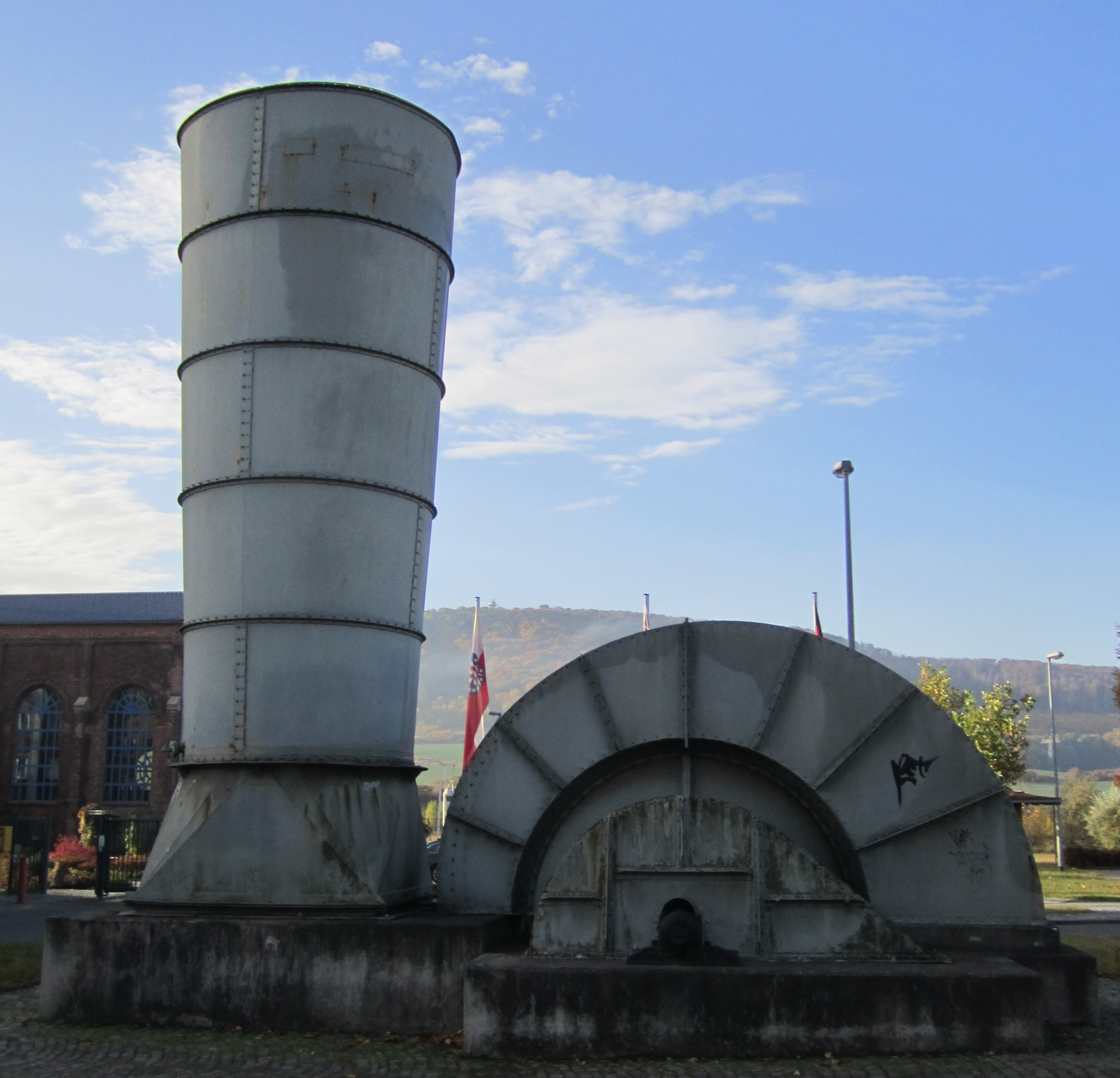 Mine ventilator of Kaliwerk Glückauf Sondershausen. Sondershausen, Thuringia, Germany.